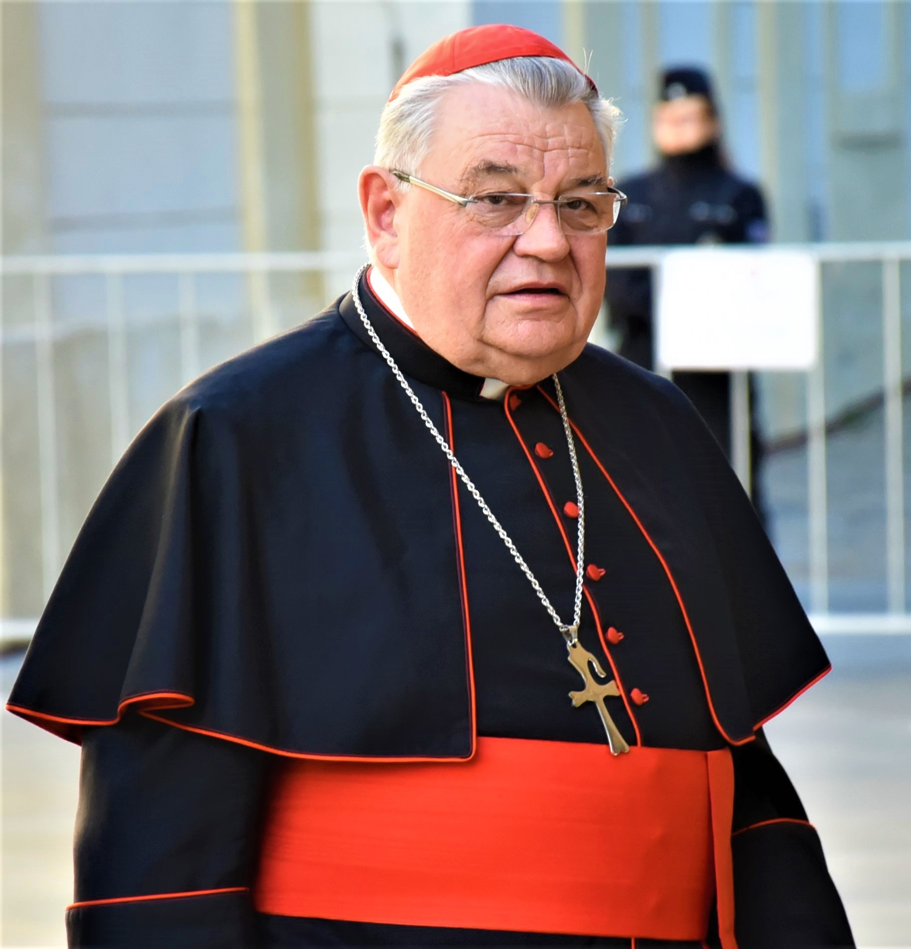 Dominik kardinál Duka, 36th Archbishop of Prague, cardinal of the Roman Catholic Church